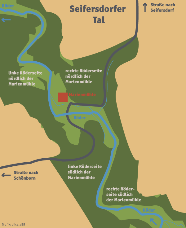 The Seifersdorfer Tal is a German landscape garden from the end of the 18th century near Dreasden, Saxony, built by Christina von Brühl.